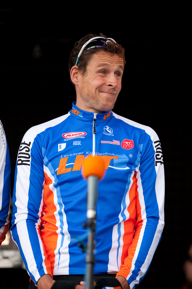 Robert Bartko, Eschborn-Frankfurt City Loop 2009